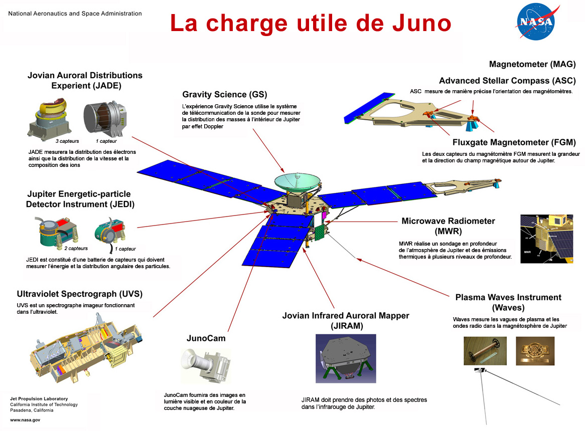 Where Junos instrumentes are attached at the spaceprobe. Notice the new solar- panel arrangement.